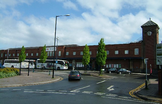 Nuneaton Trent Valley Station. On the main Manchester - London Main line.